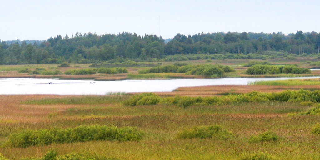 Koigi lake in Saare county